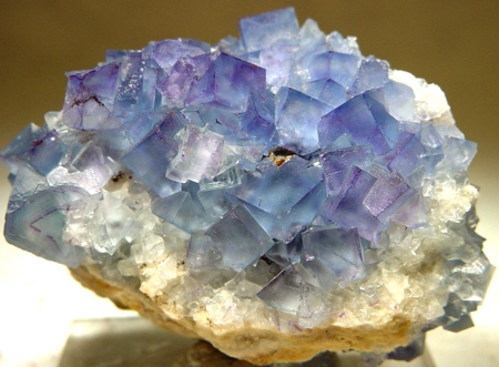 Fluorite Locality: Blanchard Mine (Portalas-Blanchard Mine), Bingham, Hansonburg District, Socorro County, New Mexico, USA (Locality at ) Teal-blue crystals to 1 cm, with purple shading inside some of the crystals. 6 x 4.2 x 3.5 cm